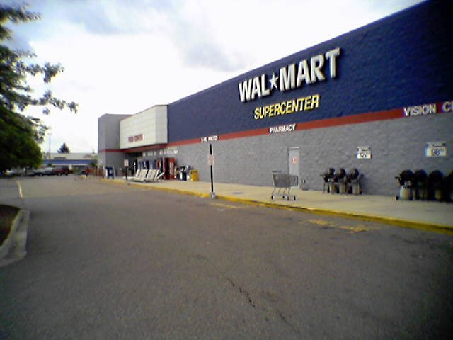 Wal-Mart Supercenter in Lexington, Virginia prior to a remodel in mid-2005.